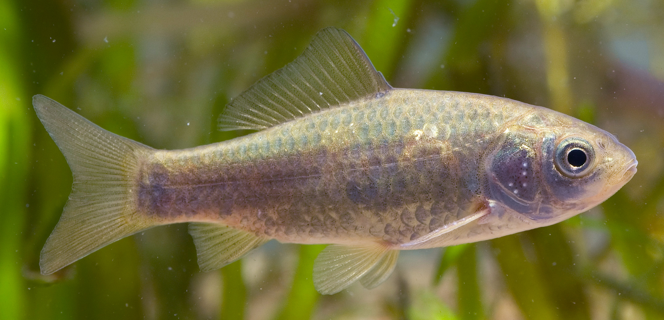 Carassius auratus buergeri subsp.1